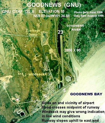 Annotated aerial photograph of Goodnews Airport (FAA: GNU) in Goodnews Bay, Alaska, United States.